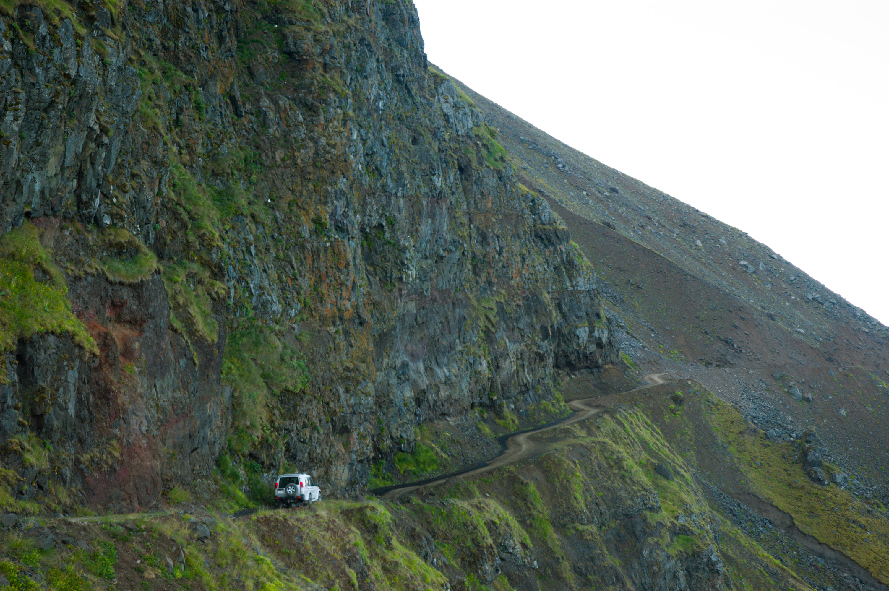 Svalvogavegur in Dýrafjörður Iceland